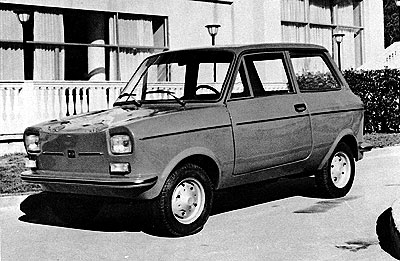 A photograph of DIM model 652 from my book 'Made in Greece'.